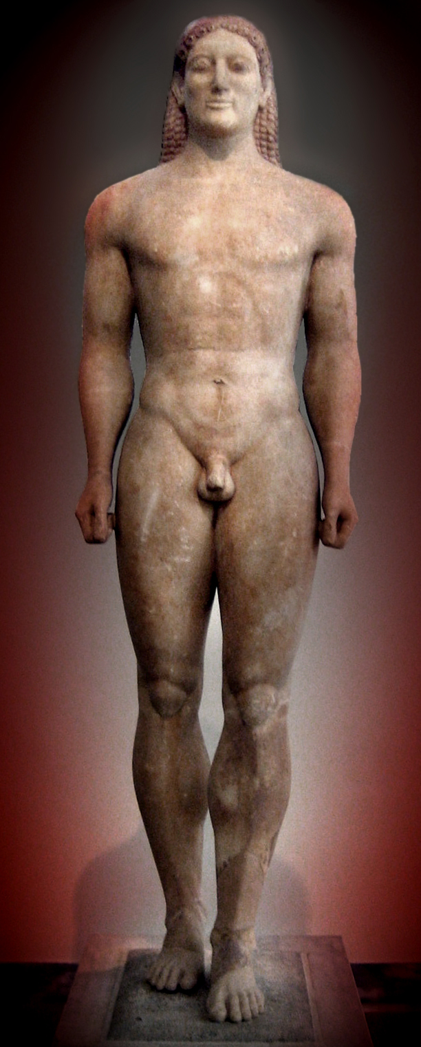 The Kroisos Kouros, in Parian marble, found in Anavyssos (Greece), dating from circa 530 BC, now exhibited at the National Archaeological Museum of Athens.